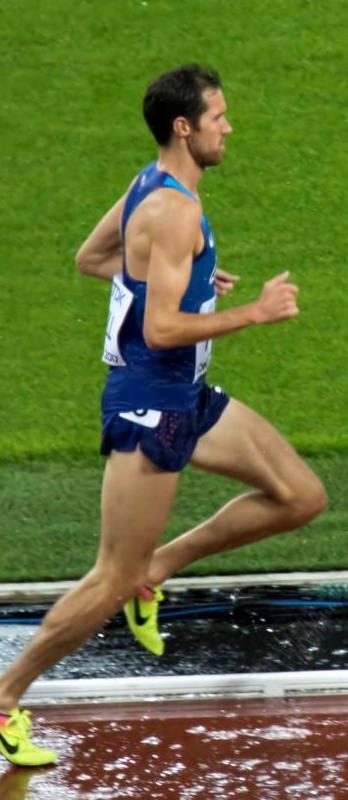 d5_6 5000m Ryan Hill, Soufiane Bouchiki, Patrick Tiernan and Sondre Nordstad Moen